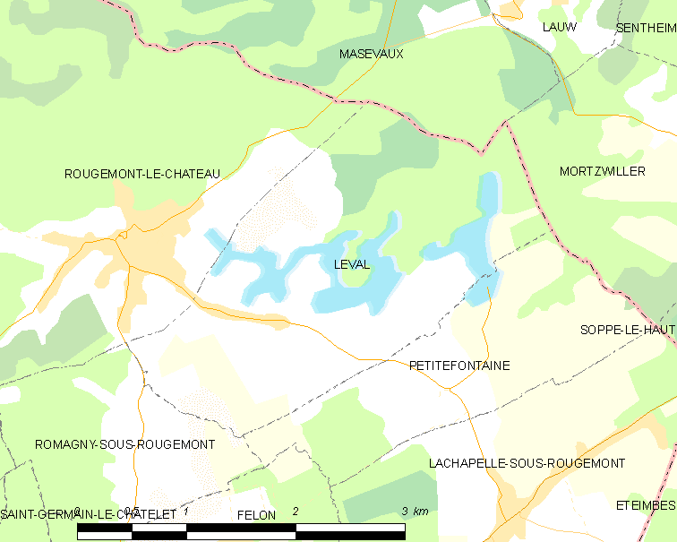 Map of French municipality Leval